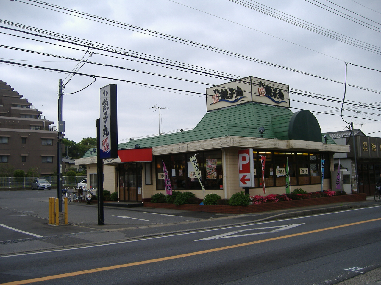 Sushi restaurants "Choshi-Maru" (Funabashi, Japan)